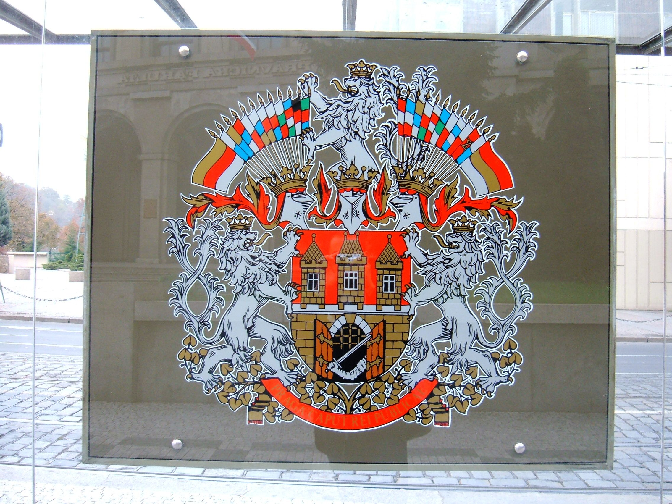 The Prague coat of arms on a bus stop.